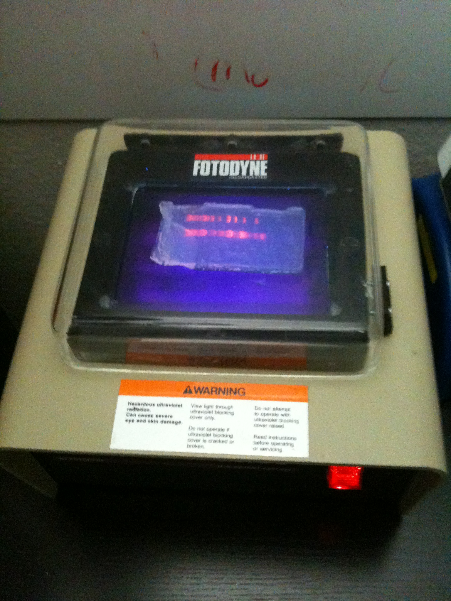 1.2% agarose gel with two different DNA ladders. GelRed stain was used.